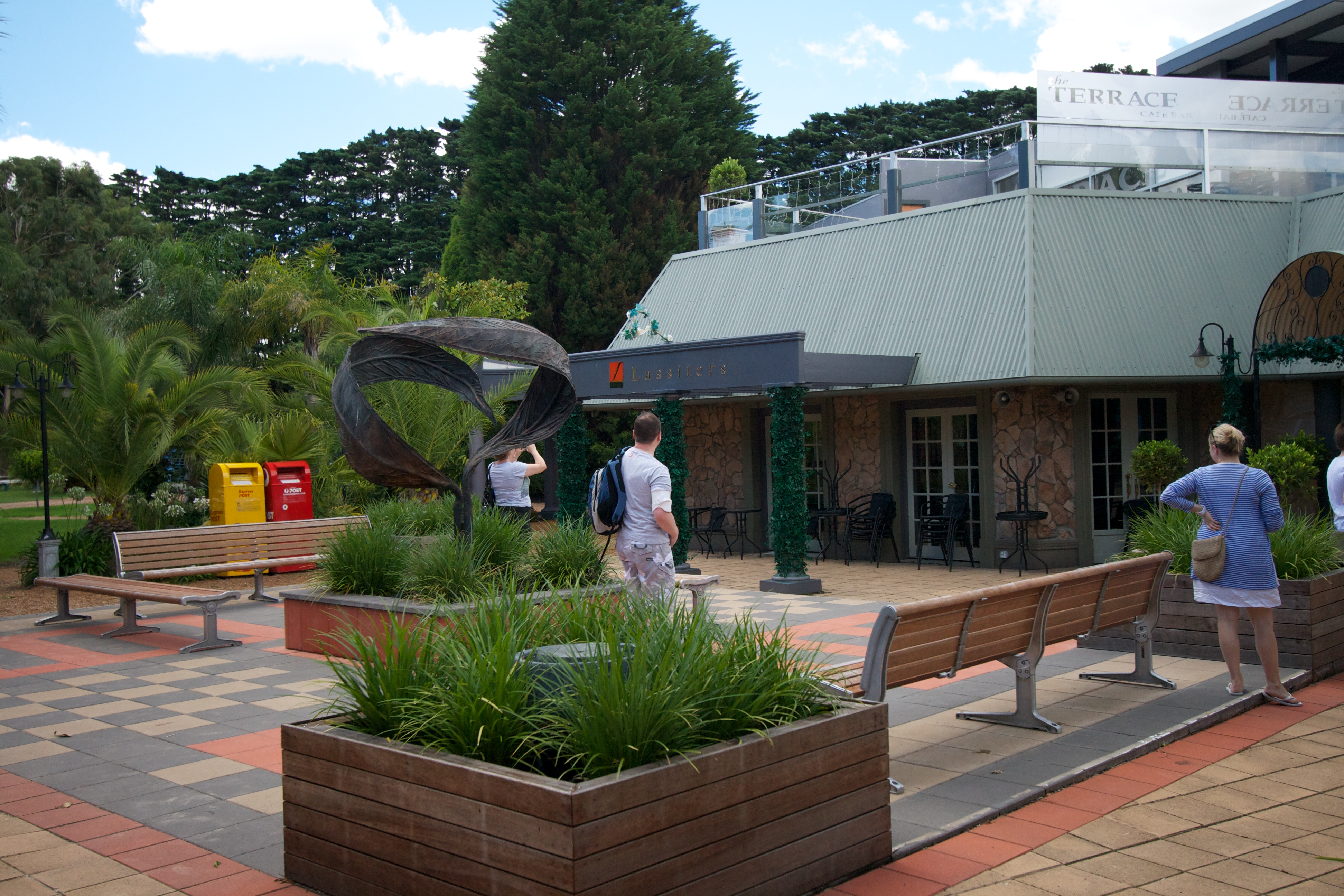 The Lassiter's Hotel set from the Australian soap opera Neighbours.